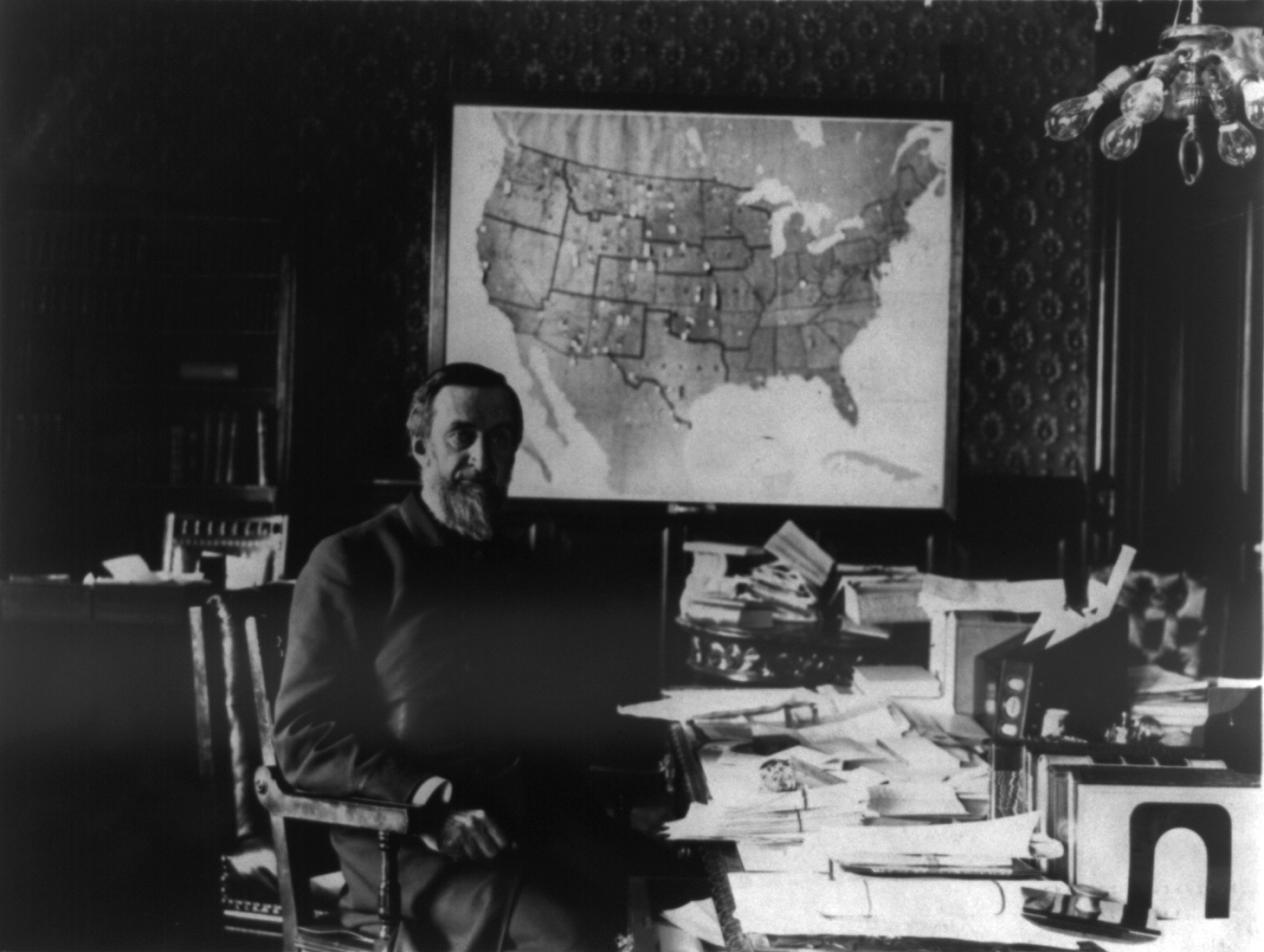 Redfield Proctor, 1831-1908, three-quarter length portrait, seated at desk, facing right